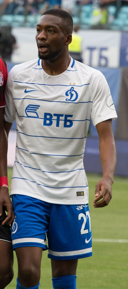 Samba Sow with FC Dynamo Moscow in a game against FC Amkar Perm.